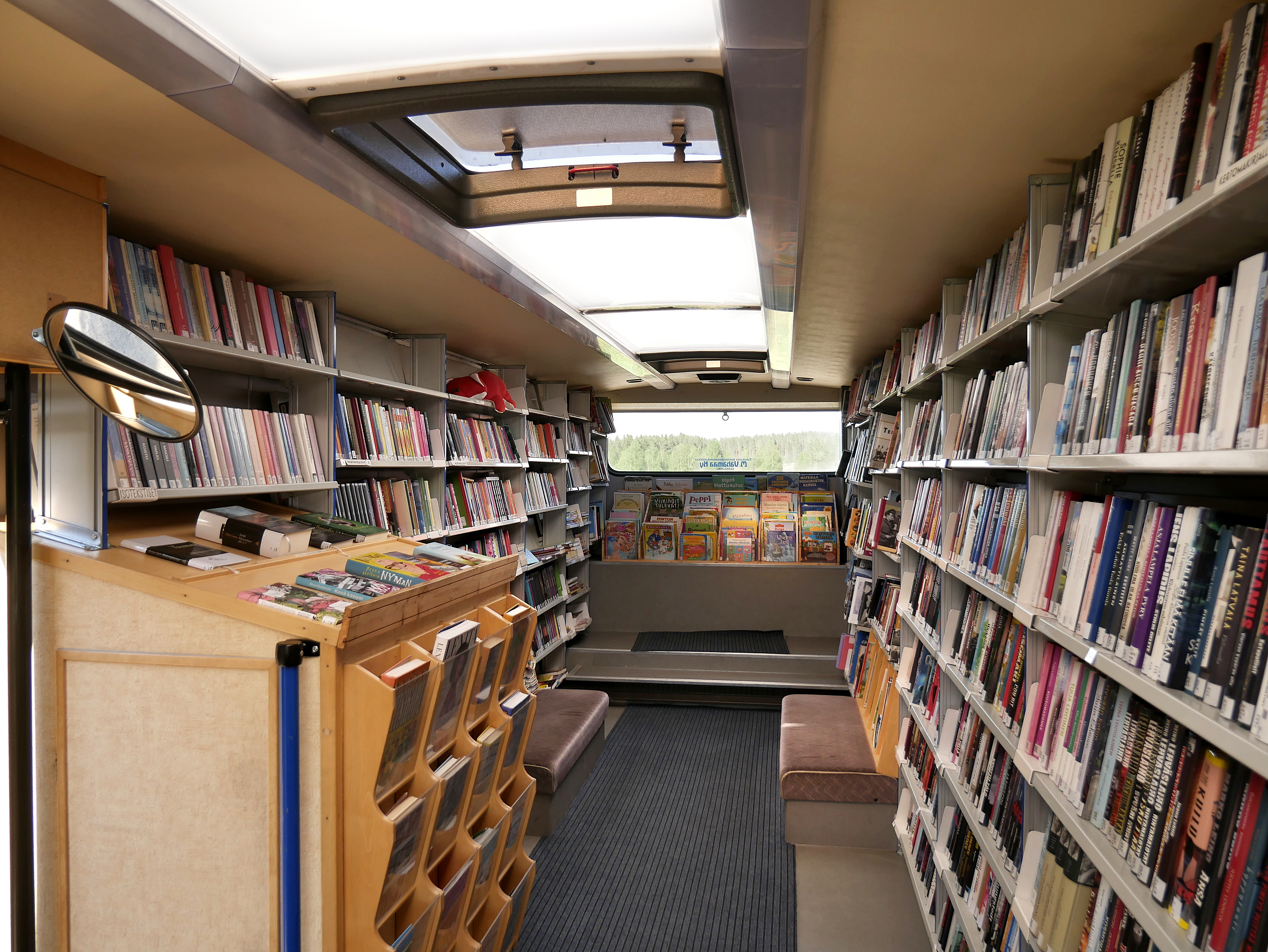 Interior of bookmobile in Lappajärvi, Finland.